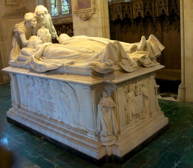 Tomb of Lord and Lady Curzon